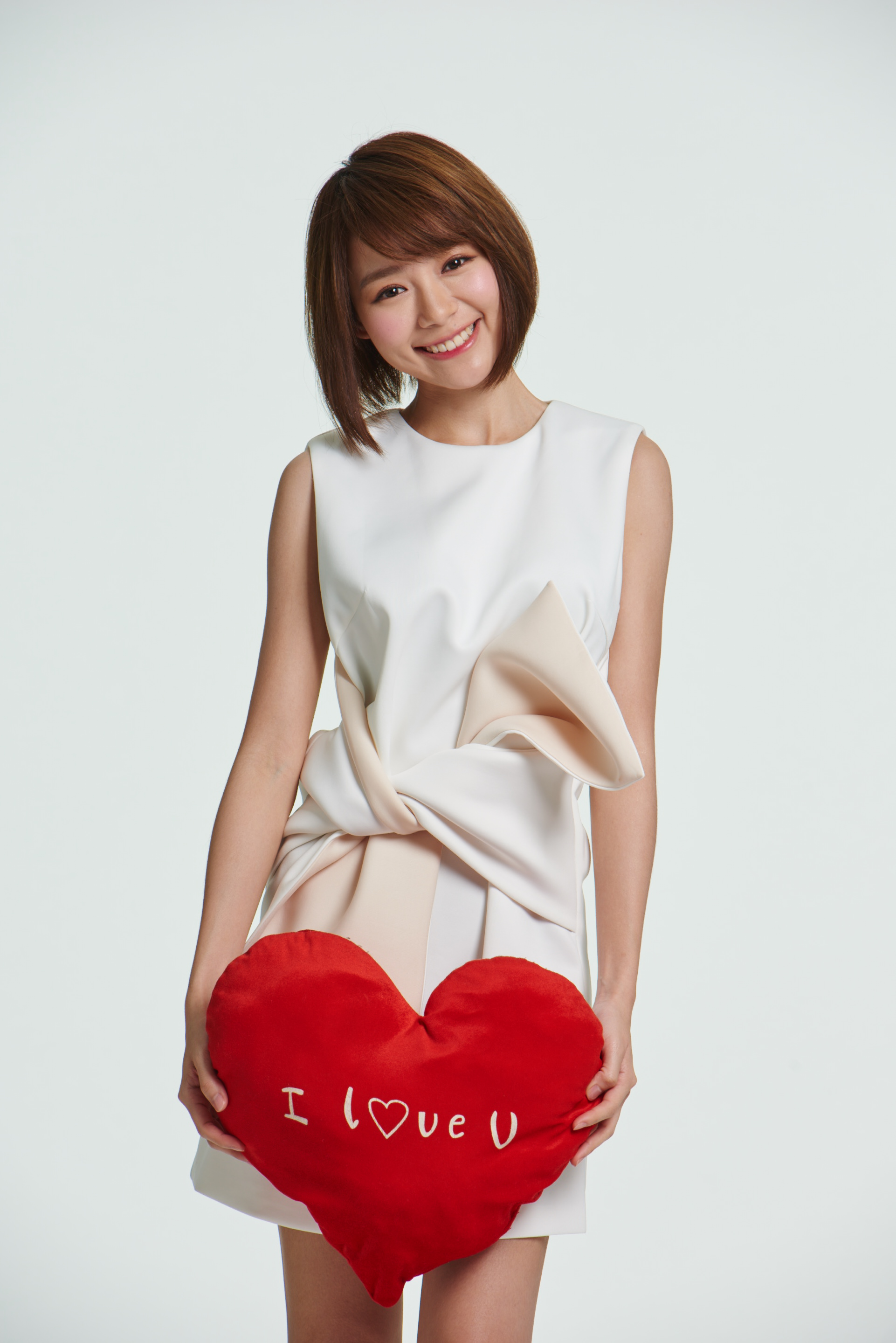 Lin Min-chen